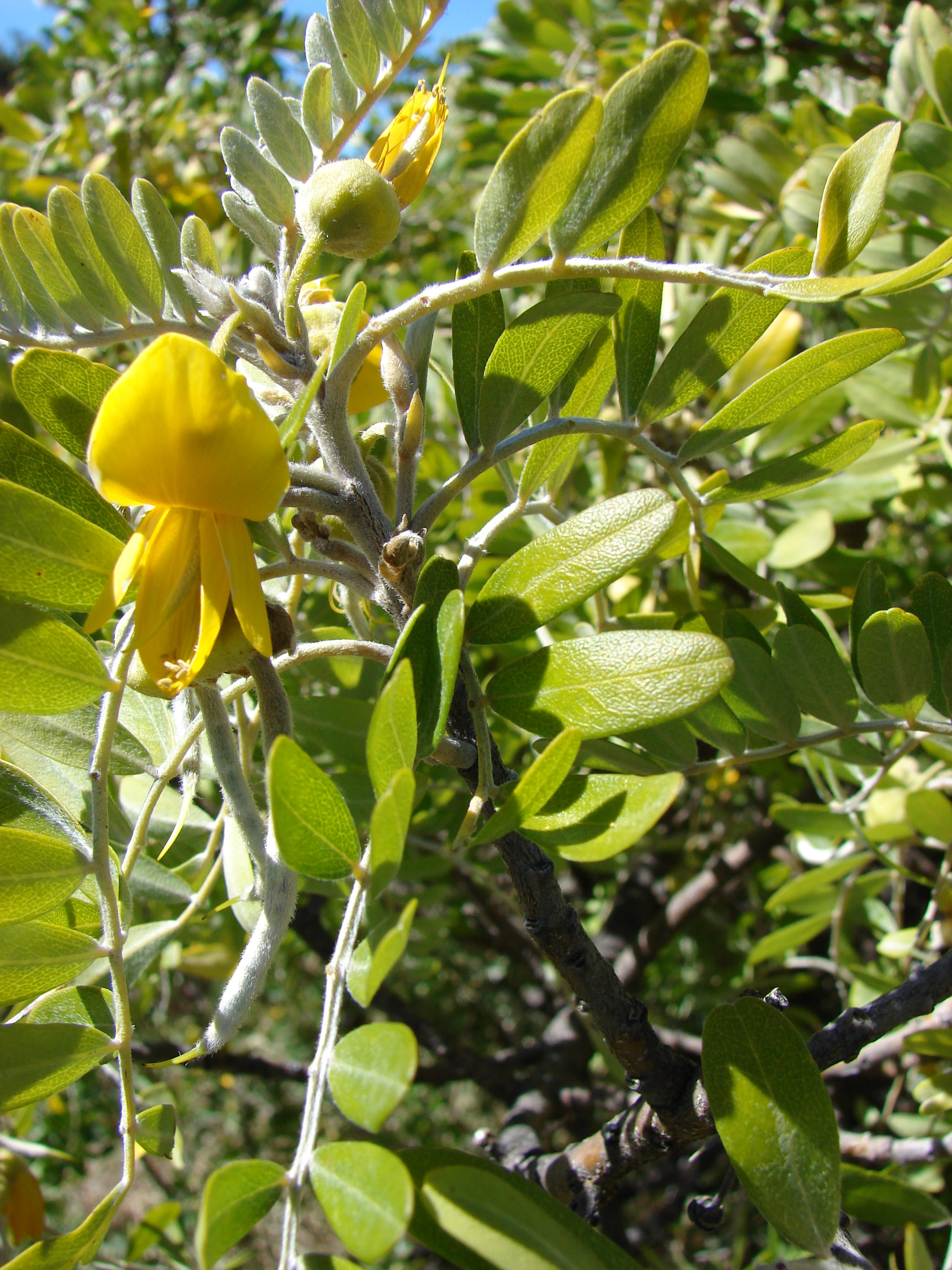 Sophora chrysophylla (flowers and leaves). Location: Maui, Halemauu Trail Haleakala National Park